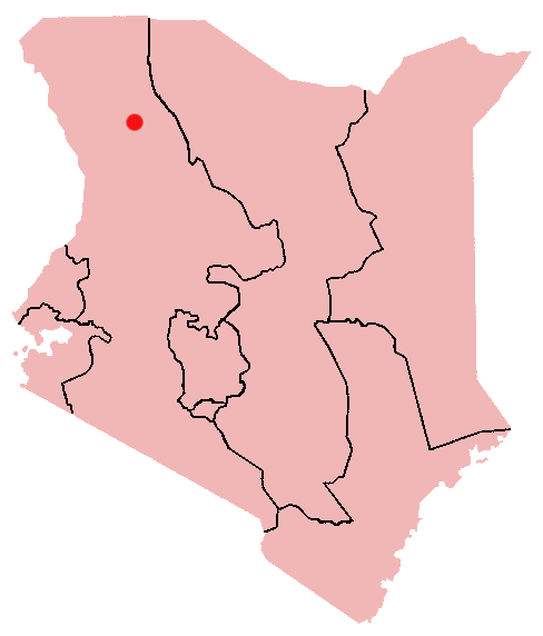 Lodwar, Kenya Location Map; created with the GIMP. Made by User:Acntx.